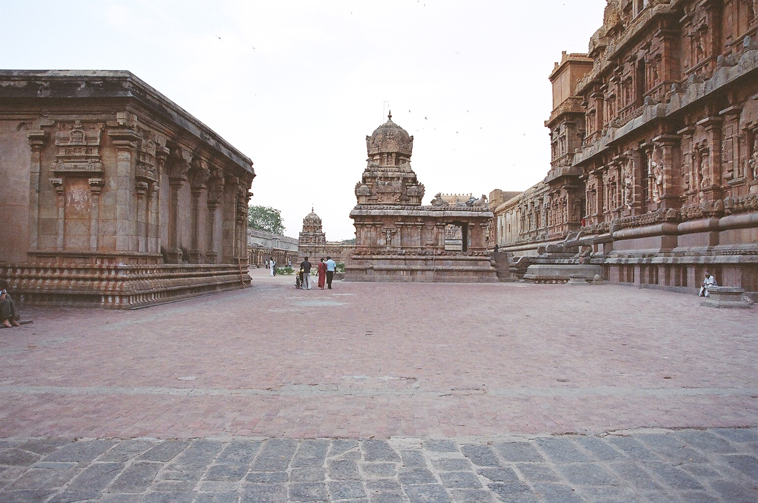 A frontal right side view of the main temple at the Brihadeshwara temple complex in Tanjore. Chandeshvara shrine at the centre.